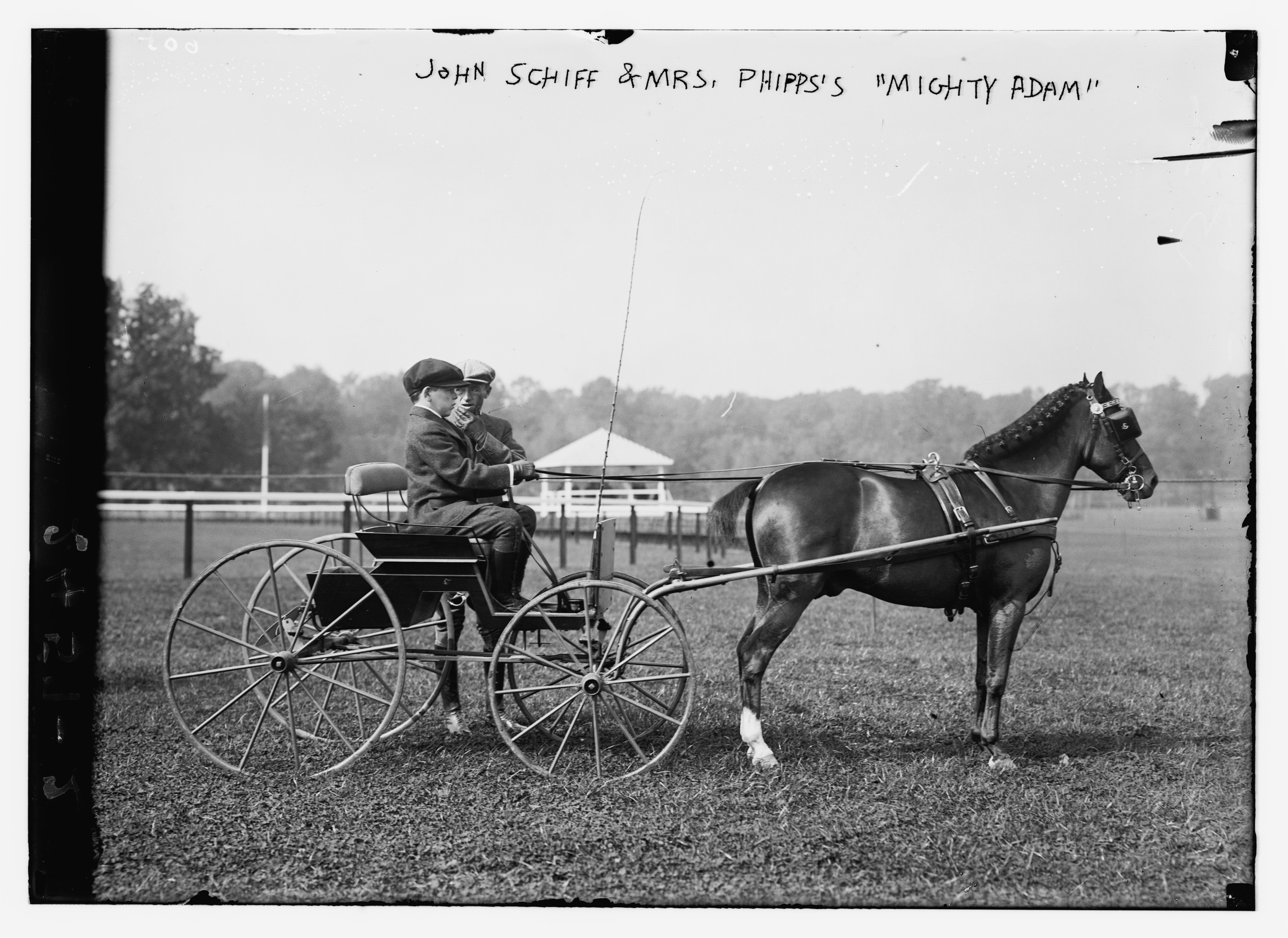 Bain News Service,, publisher. John Mortimer Schiff & Mrs. Phipps' "Mighty Adam" most likely at the Piping Rock Club [between 1910 and 1915] 1 negative : glass ; 5 x 7 in. or smaller. Notes: Title from unverified data provided by the Bain News Service on the negatives or caption cards. Forms part of: George Grantham Bain Collection (Library of Congress). Format: Glass negatives. Repository: Library of Congress, Prints and Photographs Division, Washington, D.C. 20540 USA, General information about the Bain Collection is available at Persistent URL: Call Number: LC-B2- 2457-2